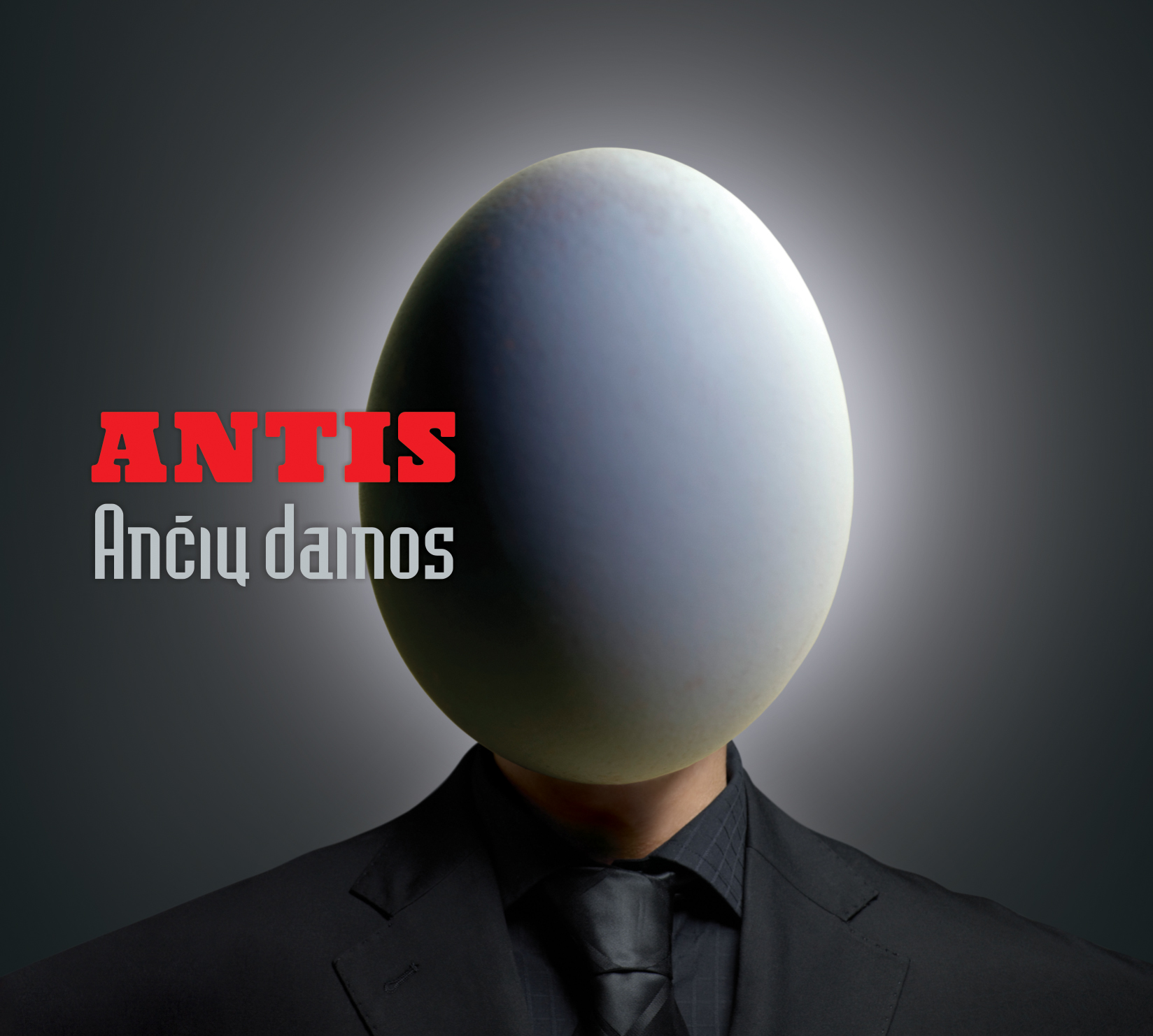 The cover picture of Antis Anciu Dainos album